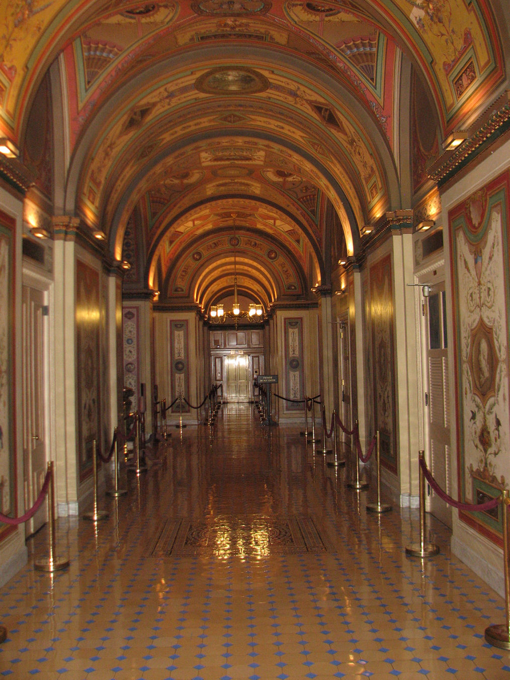 Photograph of the Brumidi Corridors in the north wing of the United States Capitol looking west, taken by Rebel At| on June 23rd, 2007.